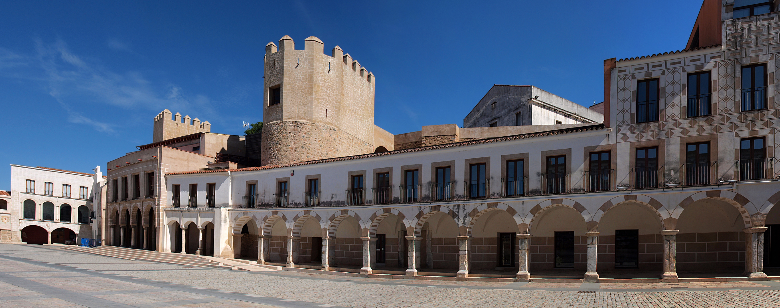 Plaza Alta, Badajoz. Stitch of 3 horizontal images.